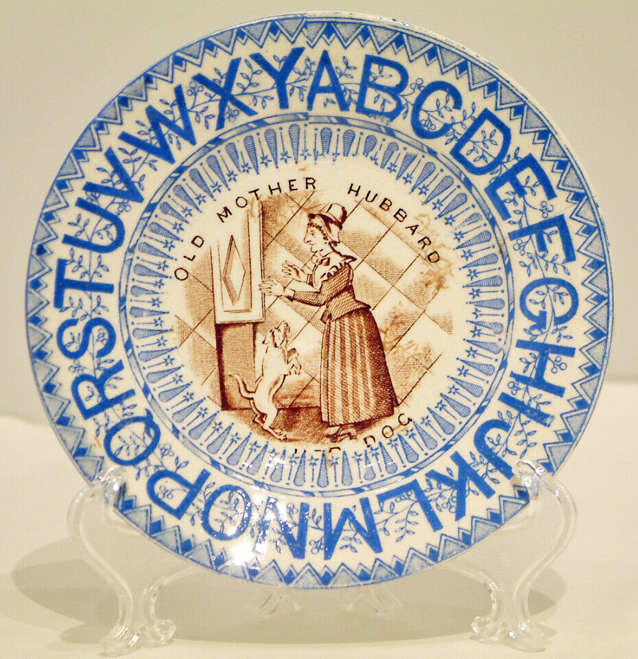 A Victorian alphabet plate, 5 1/2" diameter plate. The letters run about the rim and slightly off-centre is a transfer of Mother Hubbard standing with her begging dog before her cupboard. A leafy vine runs under the alphabet.